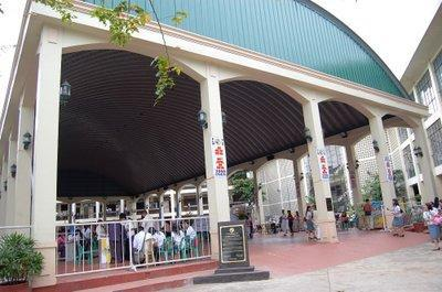 The entrance to the PLM Activity Center